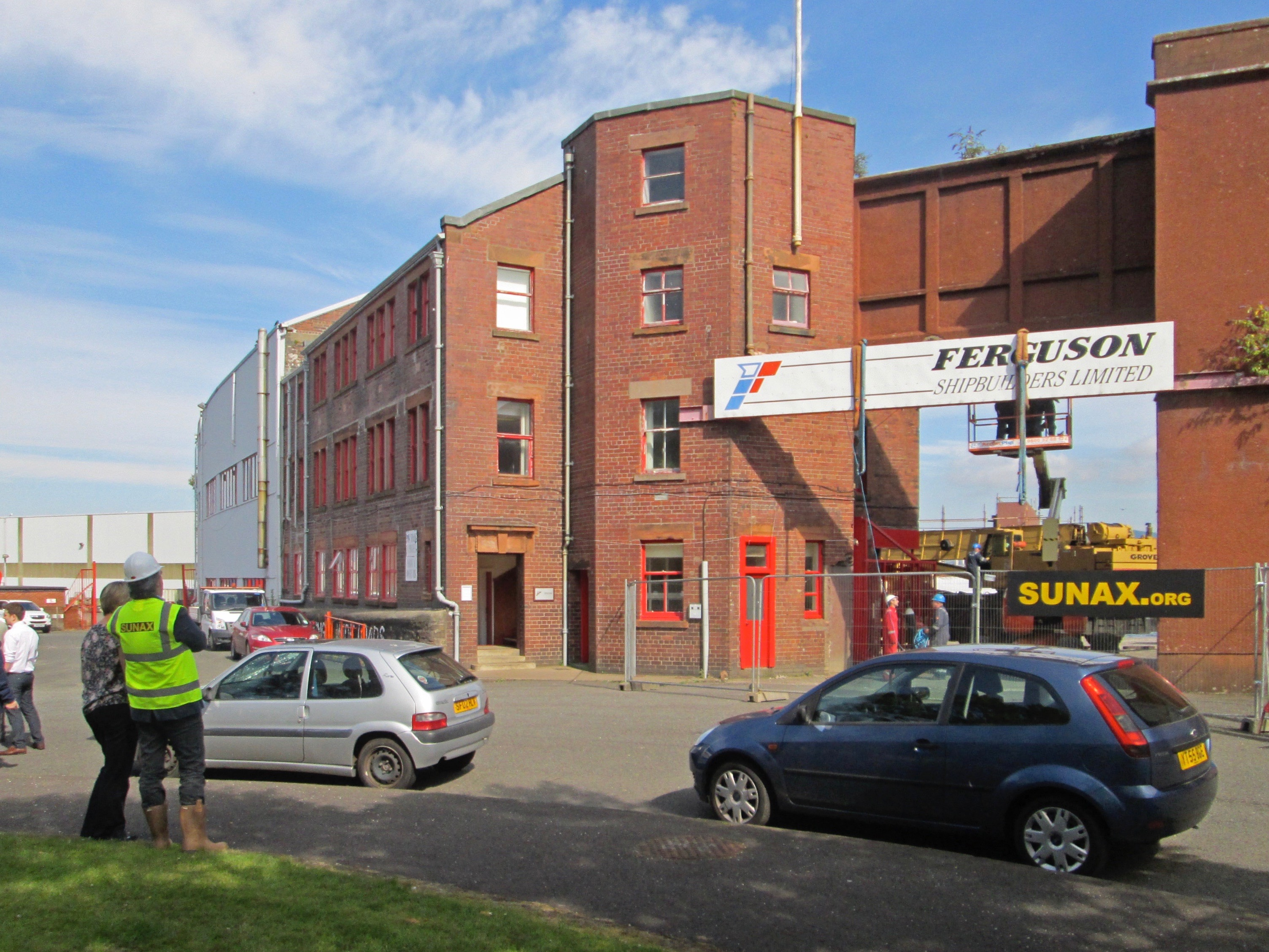 Ferguson Shipbuilders, Port Glasgow, original office building. Entrance sign being taken down during reconstruction as Ferguson Marine Engineering Limited.